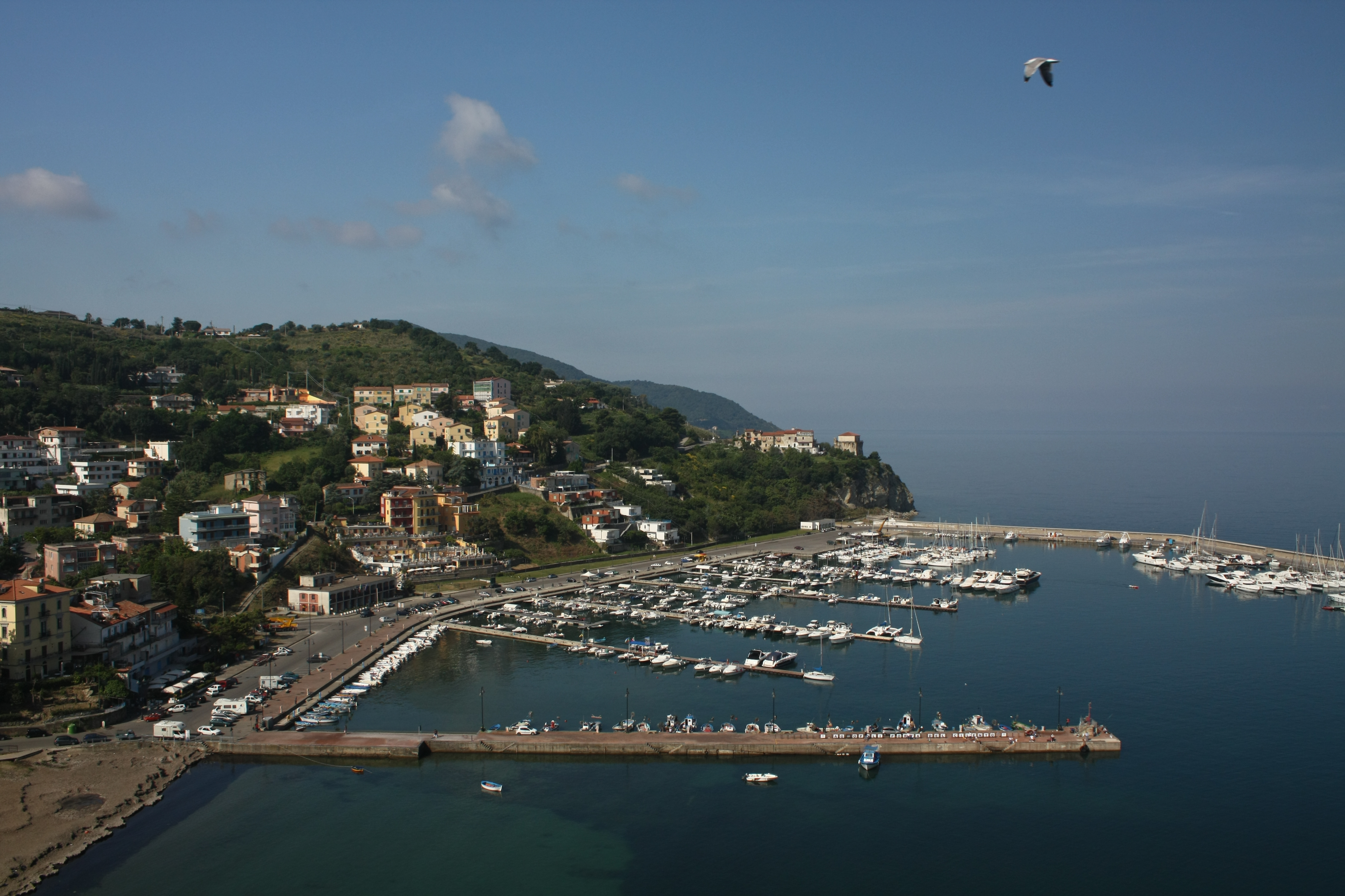 Municipality of Agropoli, province of Salerno, Campania, Italy